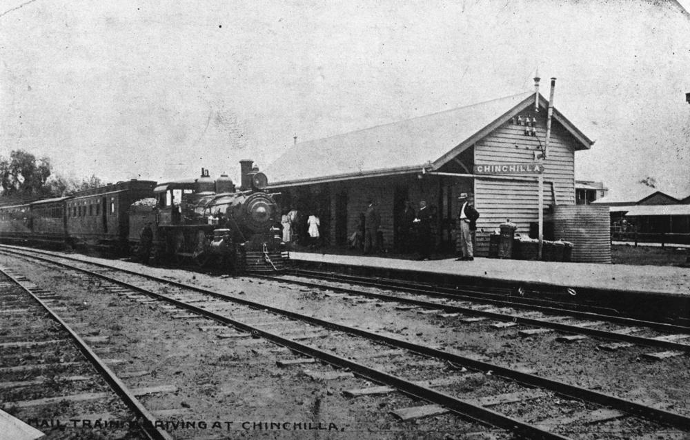 Steam locomotive at the Chinchilla Railway Station, Queensland, 1908. Steam locomotive arriving at the Chinchilla Railway Station. Passengers are waiting on the platform. Caption: 'Mail train arriving at Chinchilla.'.